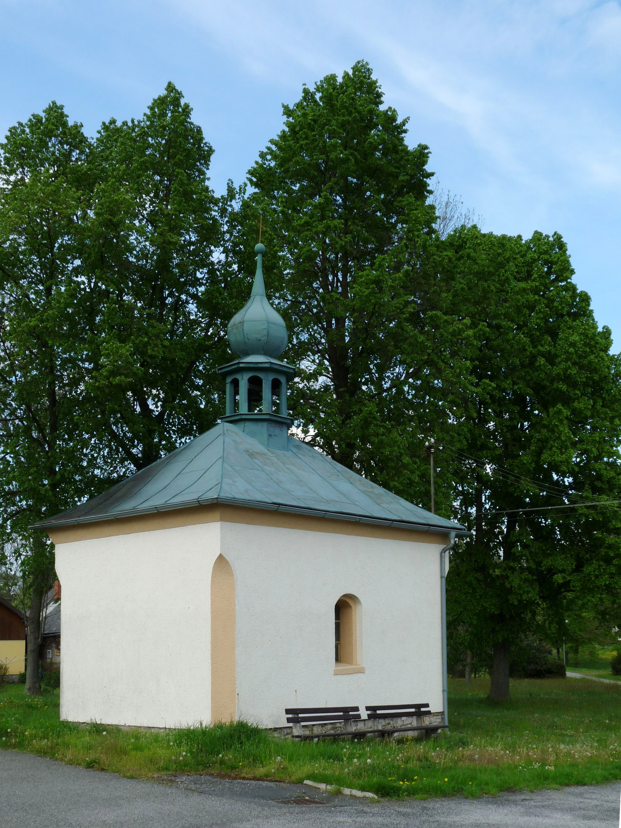 Chapel in the village of Střížov, Havlíčkův Brod District, Vysočina Region, Czech Republic.